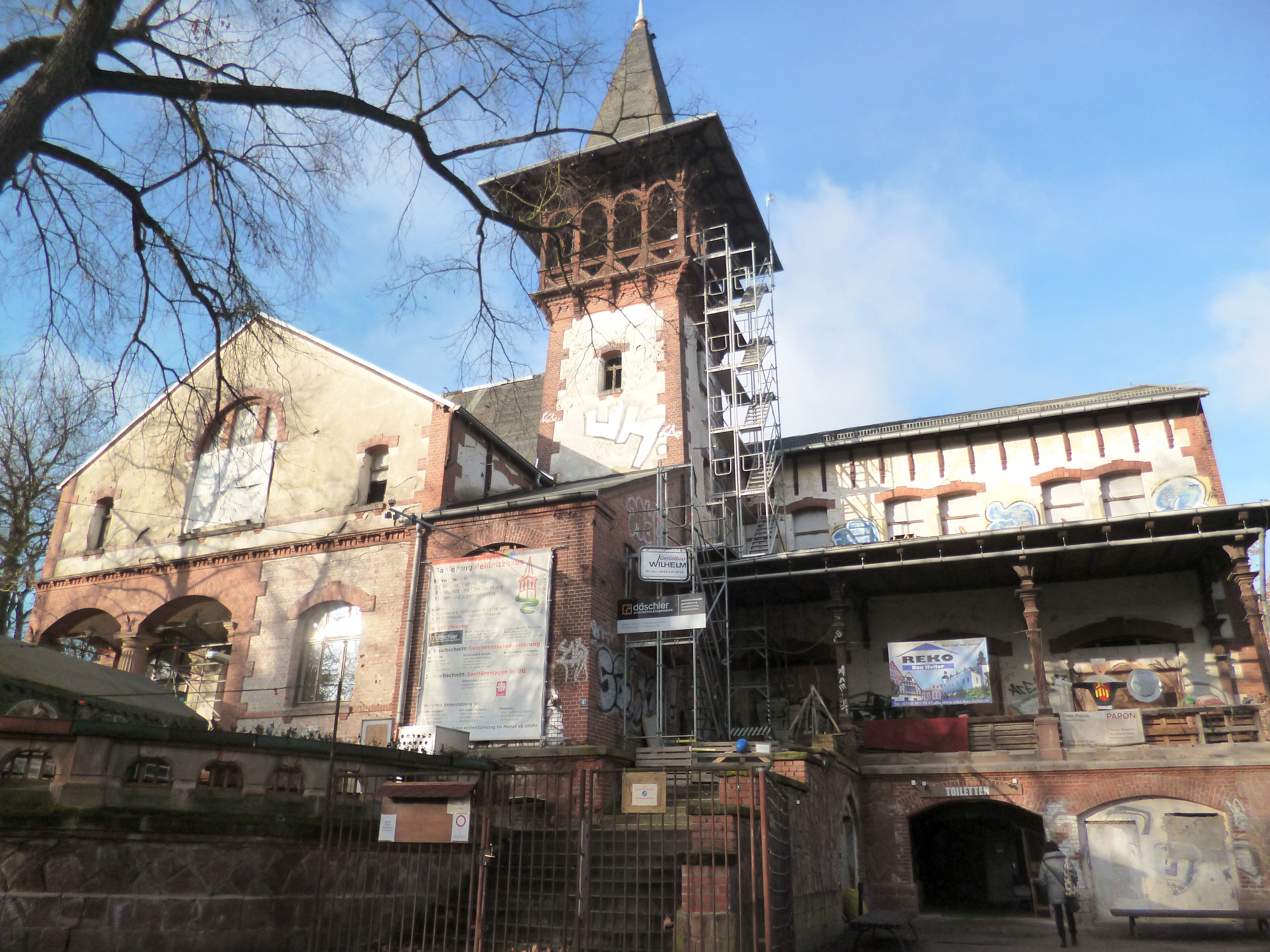 Peißnitz house on the Peißnitz island, Halle (Saale)